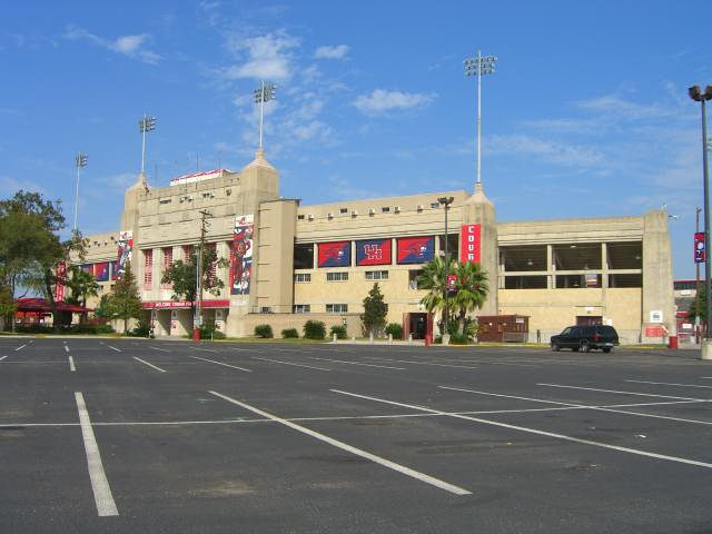 The Cullen Boulevard façade of John O'Quinn Field at Corbin J. Robertson Stadium, the home of the Houston Cougars football team on the campus of the University of Houston in Houston, Texas.